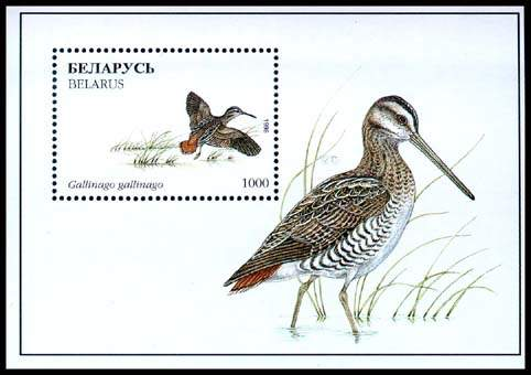 Stamp of Belarus